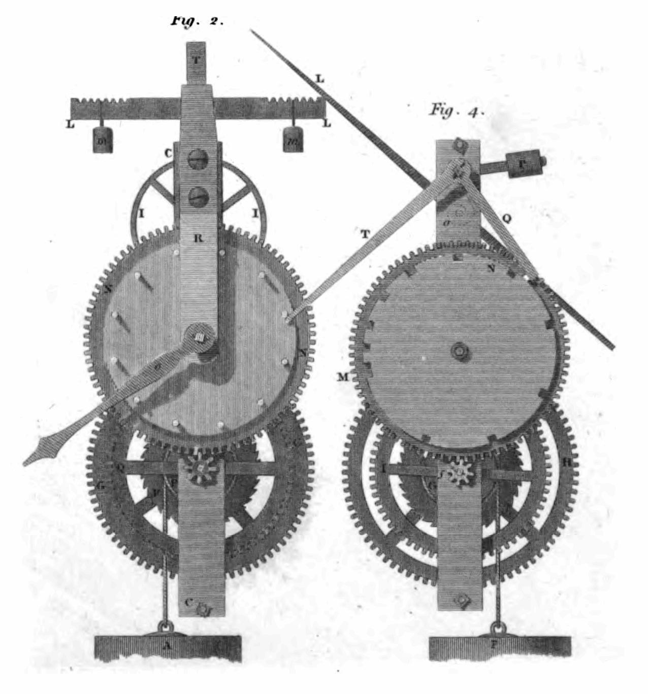 Drawing of an early tower clock, Paris's first clock, built by Henri de Wick (also spelled de Wyck or de Vick) in 1379, one of the earliest mechanical clocks of which there is a picture. It is a weight-driven verge and foliot striking clock. The time train (fig. 2) is on the left. The timekeeper is a device called a "foliot" (top, L), consisting of a horizontal beam with two weights hanging from it, which is driven to oscillate back and forth by a mechanism called a verge escapement (I). The rate can be adjusted by moving the foliot weights in or out on the beam. The striking train (fig. 4) is on the right. On each hour a pin on the time train hour wheel (N) lifts the lever arm (T,Q), allowing the striking train to rotate, and the "count wheel" cam (M, front) determines the number of hours that are struck on a 1,500 lb. gong (not shown). The striking train has a large sheet of metal called a "fan fly" in back, attached to its fastest moving wheel, to control the speed of striking. As the striking train turns, this beats the air, and the resistance controls the speed of the train. The clock took 8 years to complete, with blacksmiths cutting each tooth of every gear by hand. The 500 lb driving weights (A, F) descended 32 feet in 24 hours.